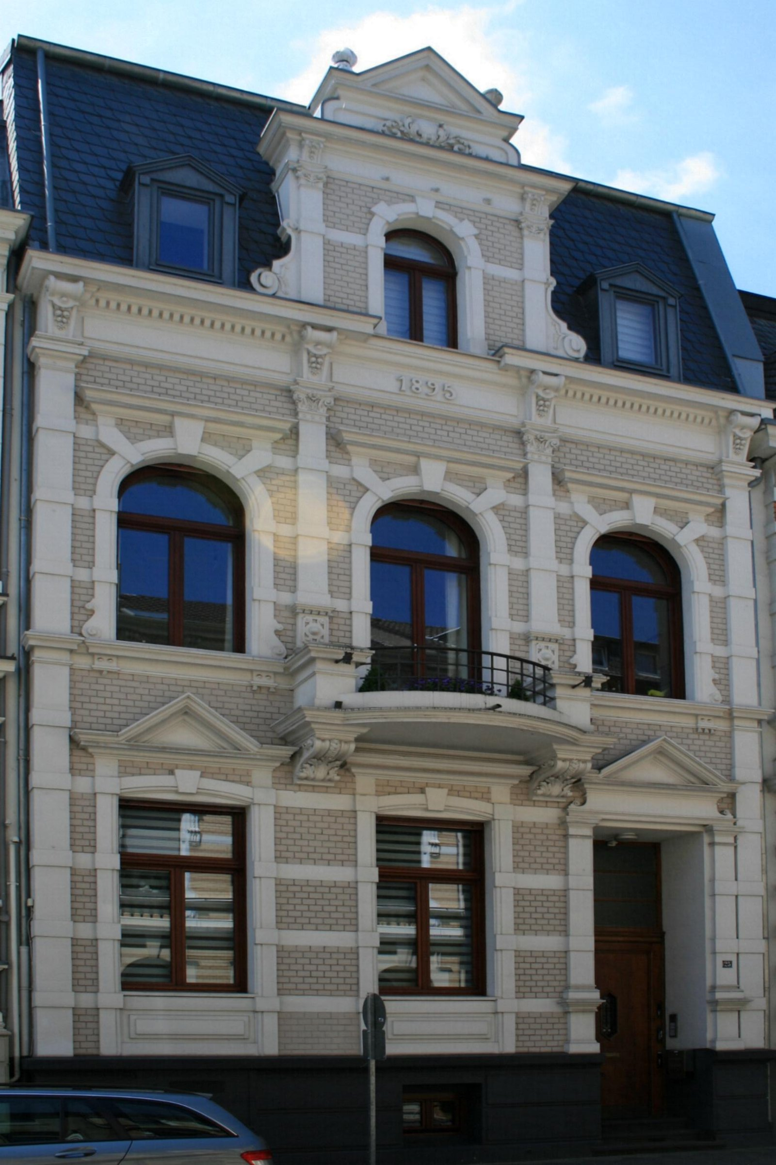 Cultural heritage monument No. B 166 in Mönchengladbach